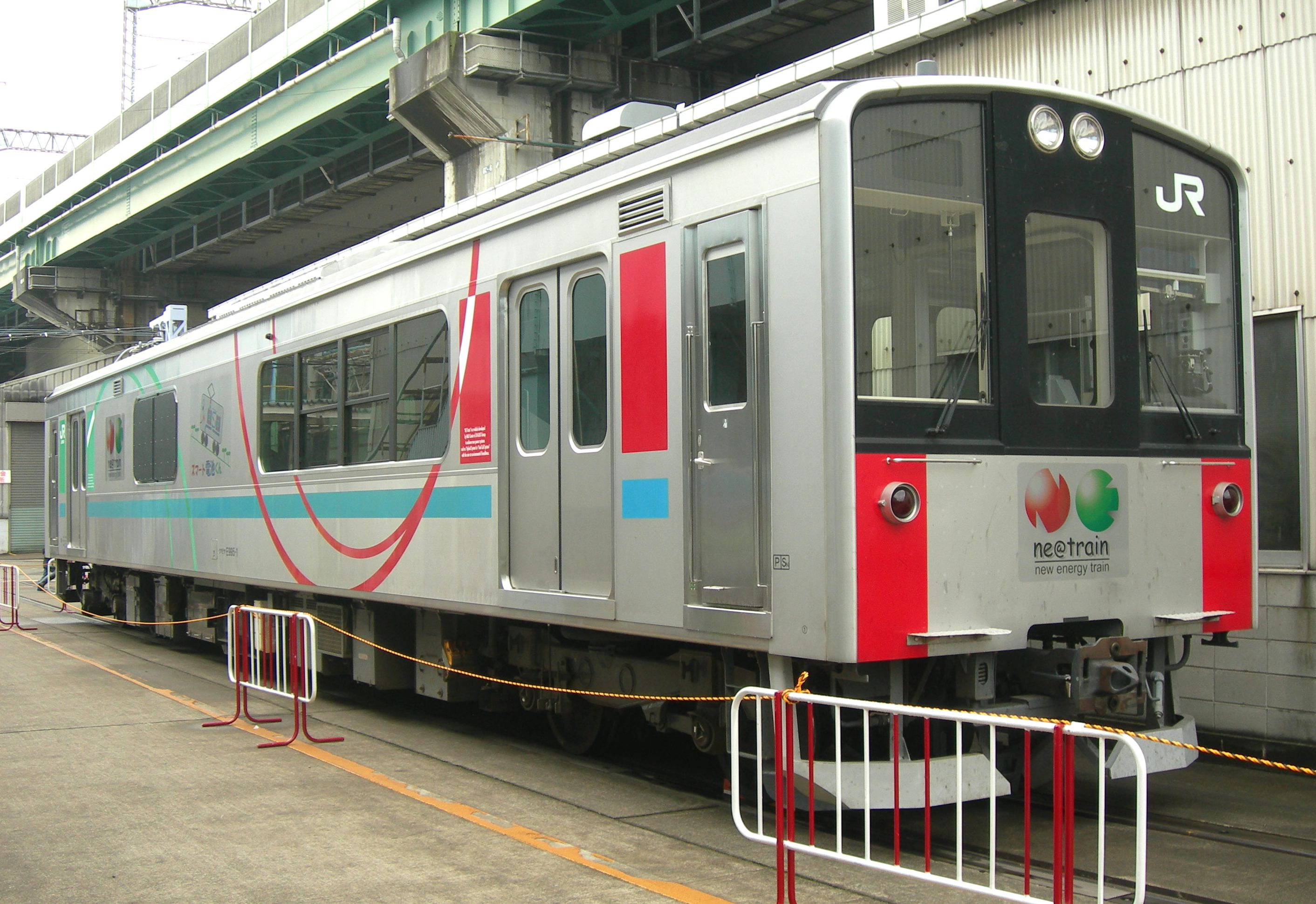 JR East KuMoYa E995-1 "NE Train Smart Denchi-kun" experimental battery/electric hybrid railcar at Omiya General Rolling Stock Center